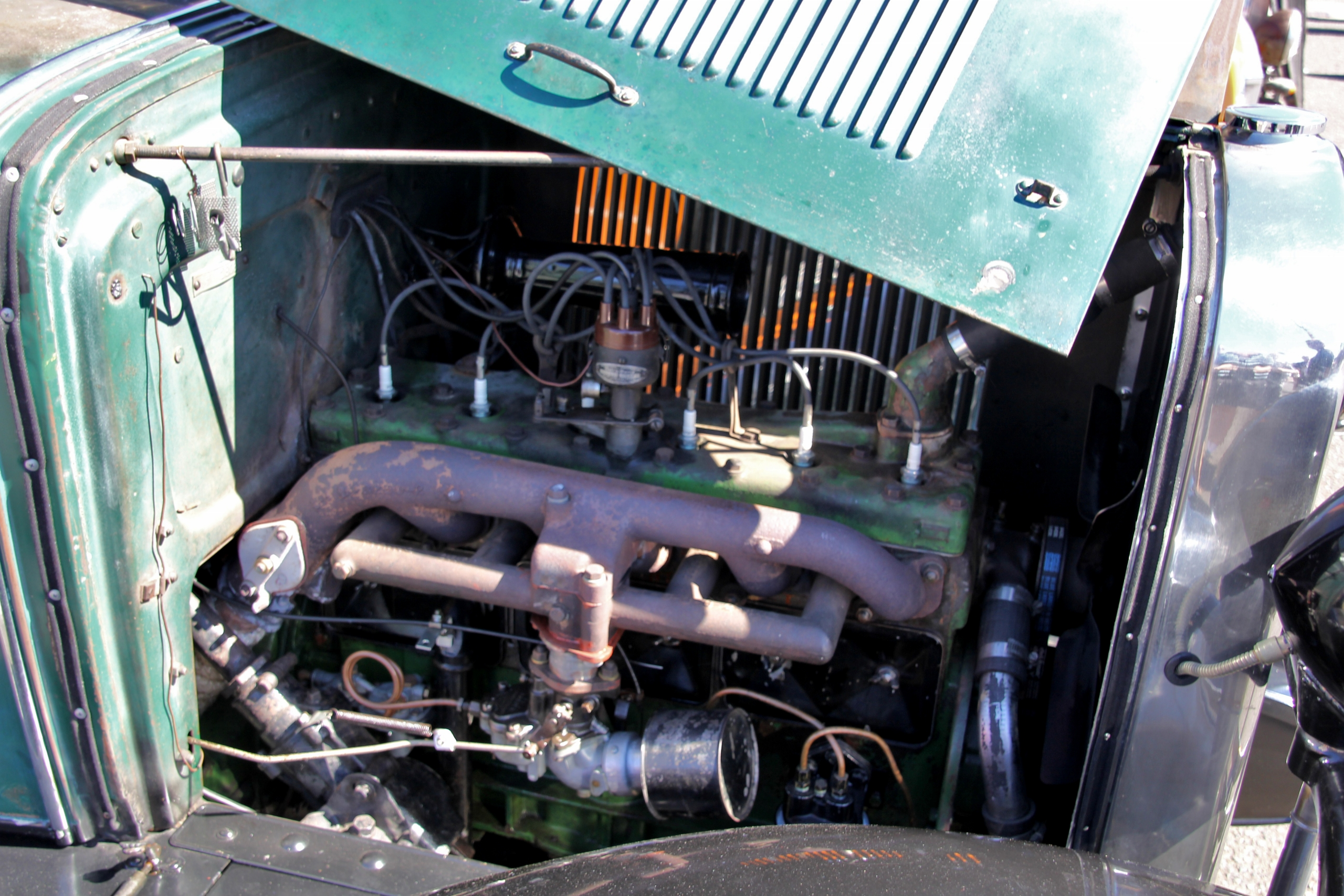 1929 Marquette Model 35 tourer engine. Taken at the 2012 Kurri Kurri Nostalgia Festival, held in Kurri Kurri, New South Wales.